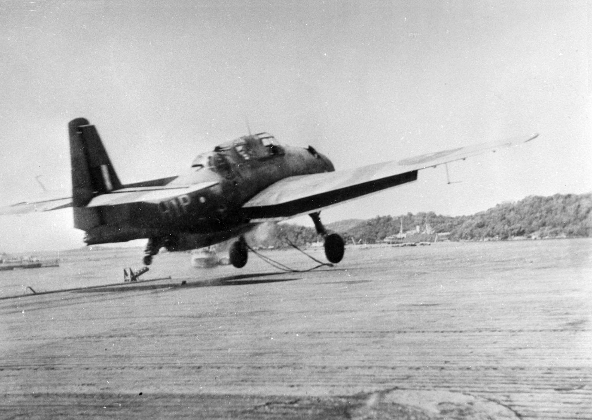 A Royal Navy Grumman Avenger from 845 Naval Air Squadron taking off from the escort carrier HMS Empress (D42) near Trincomalee, Ceylon.